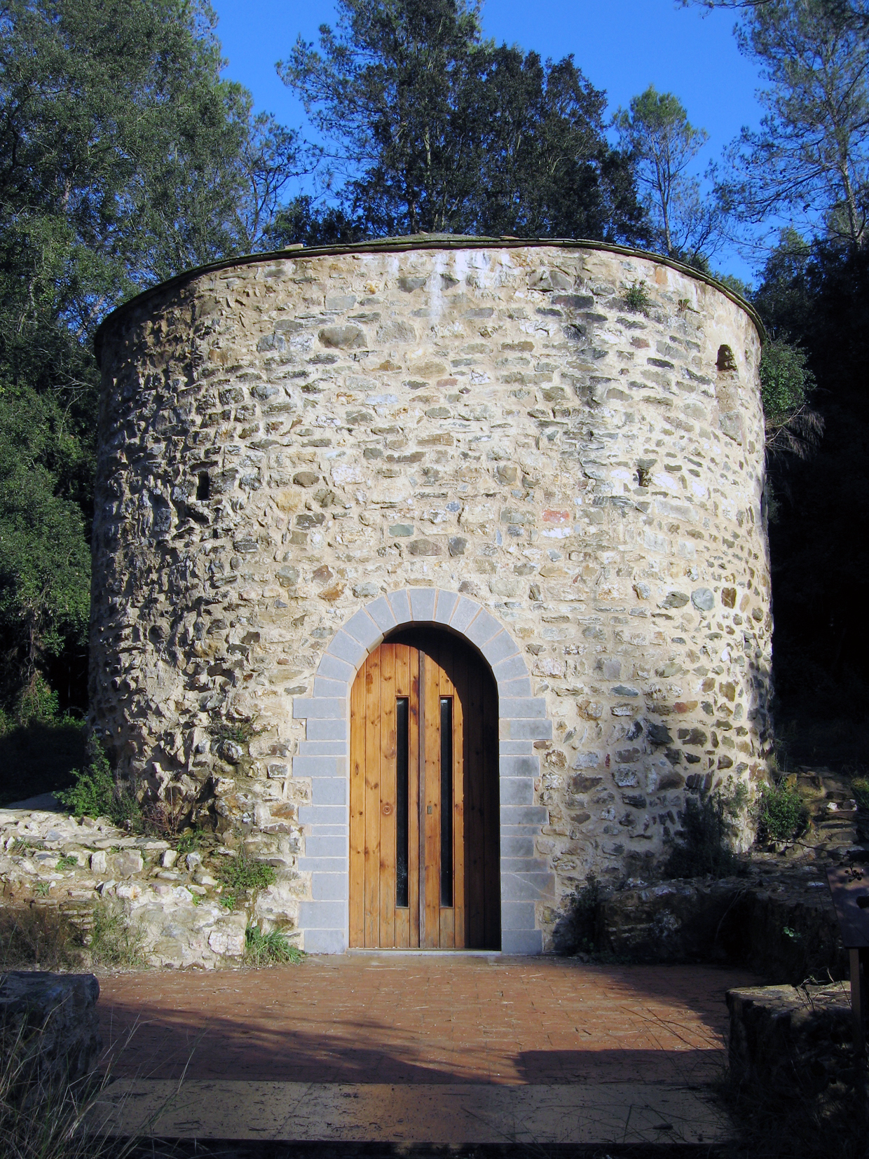 Ermita de Sant Adjutori in Sant Cugat del Vallès (Catalonia).